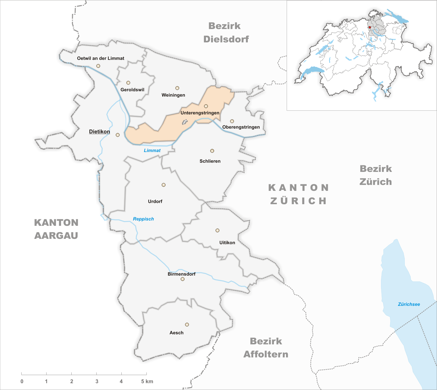 Municipality Unterengstringen